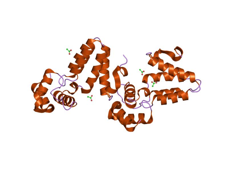 Cartoon representation of the molecular structure of protein registered with 1szh code.